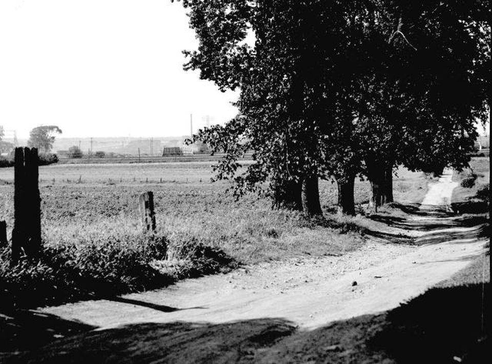 We see the cultivated land on the site of residential development project Benny Farm located on Sherbrooke Street West in the Notre-Dame-de-Grâce in Montreal.